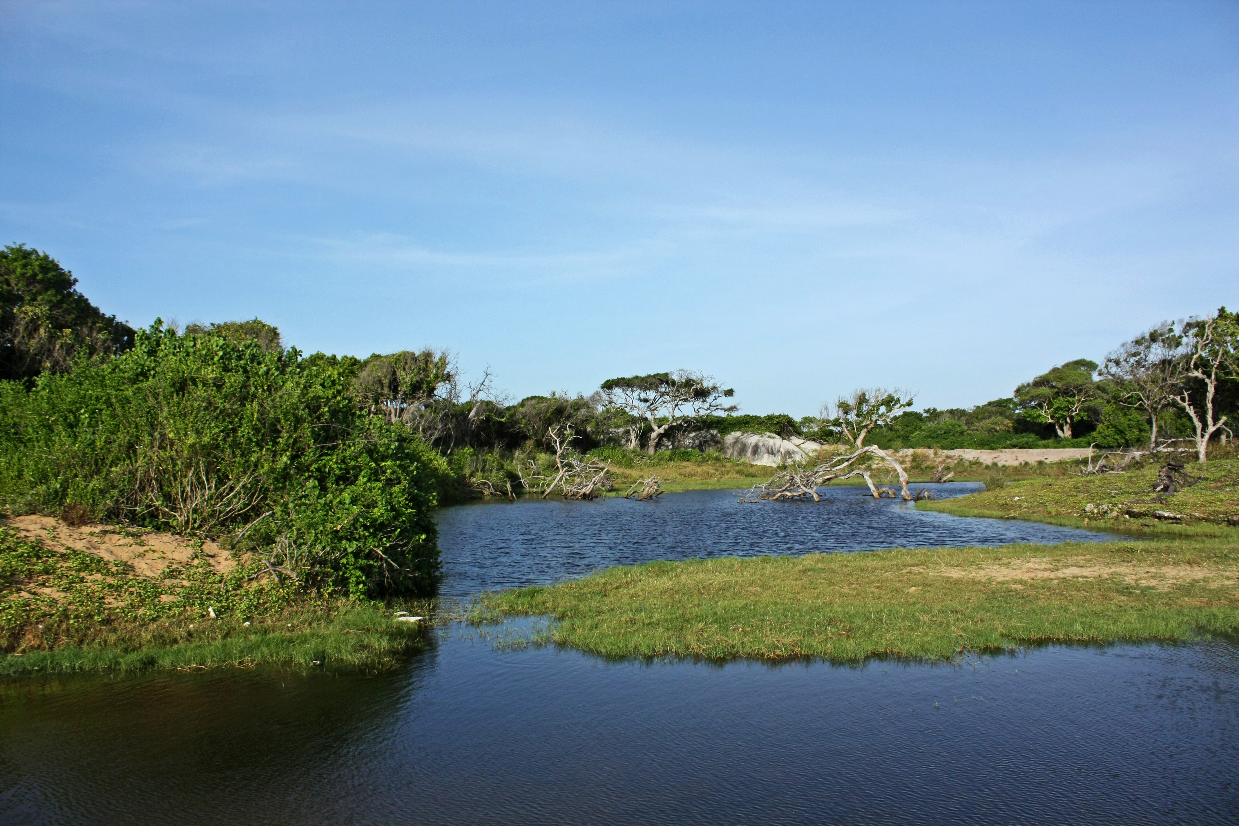 Kumana National Park near Okanda